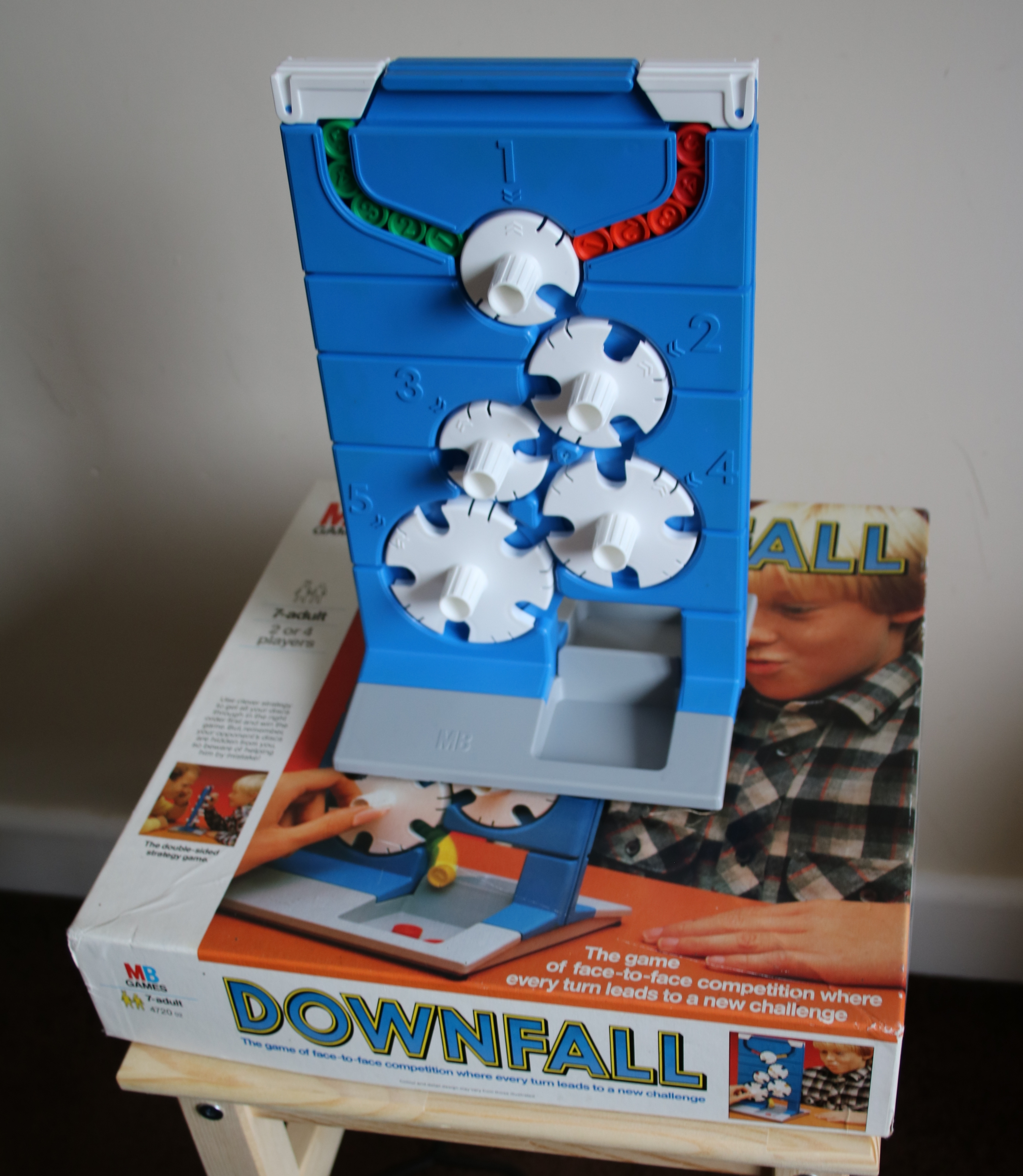 Hi-res image of the Milton Bradley game "Downfall", now marketed by Hasbro. Image shows game box and combination safe style method of gameplay